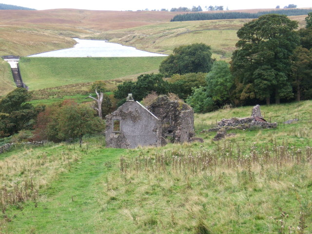 The ruined farmstead Jerah, and the Lossburn Reservoir, looking West from NS838991 in Menstrie Glen, Scotland